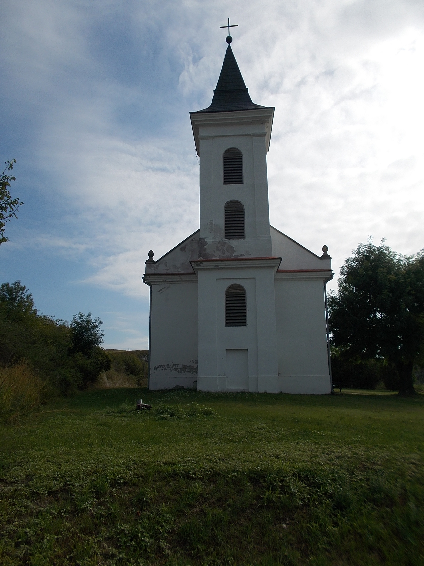 Saint Stephen of Hungary church . - Inota quarter, Várpalota, Veszprém County, Hungary.